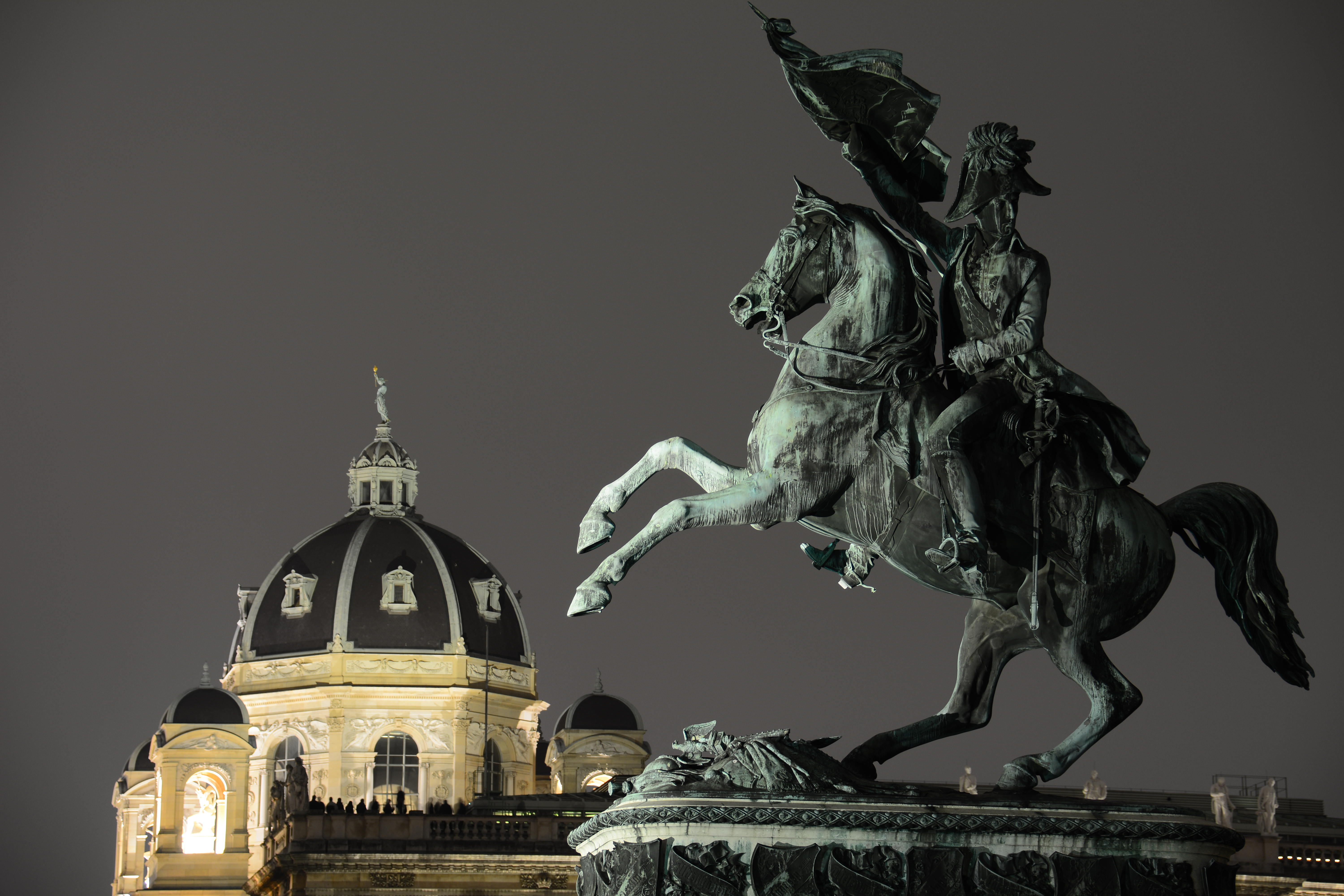 Archduke Charles monument and the dome of the Naturhistorisches Museum in Vienna, Austria